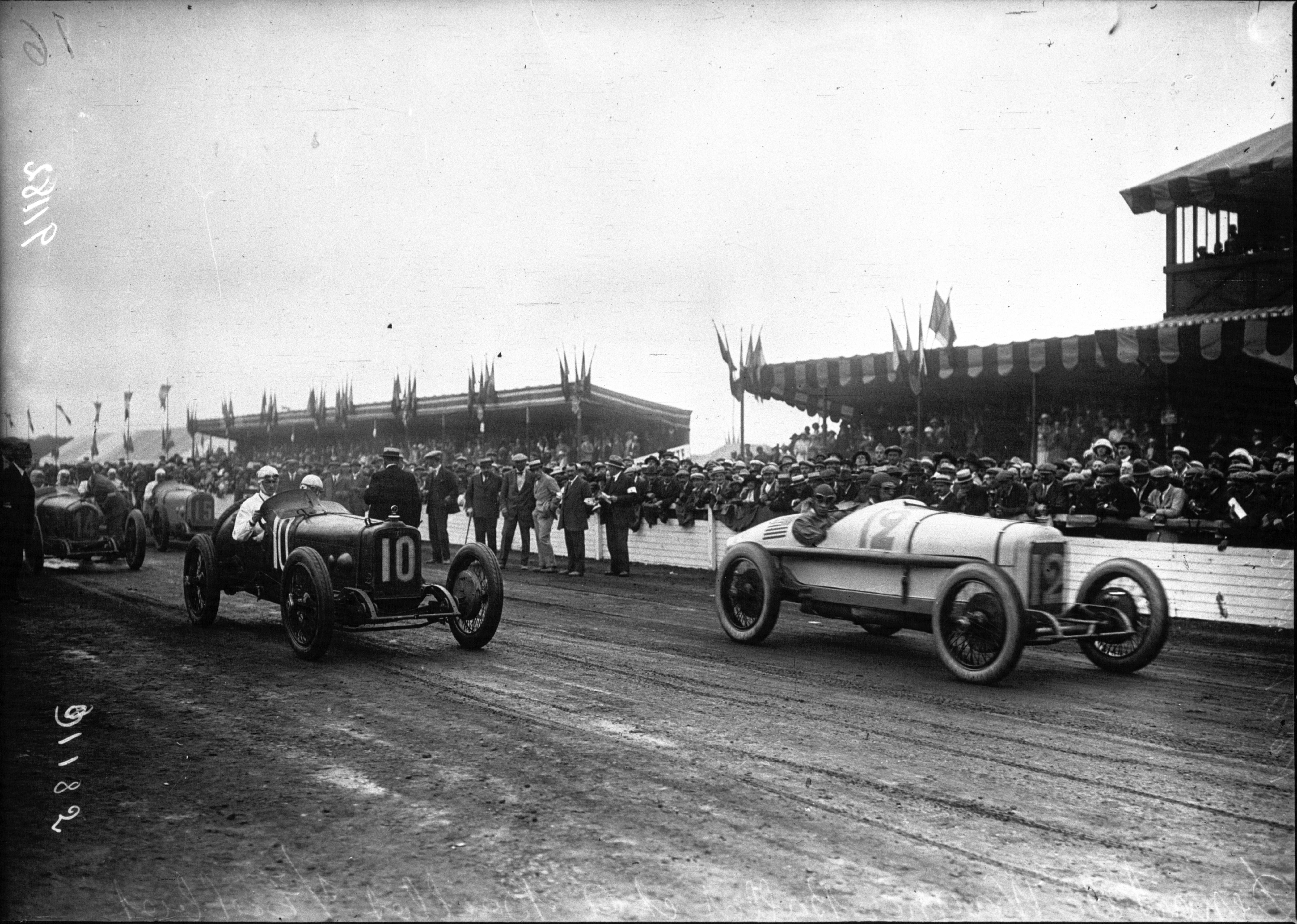 Henry Segrave (#10) and James Anthony Murphy (#12) at the 1921 French Grand Prix.